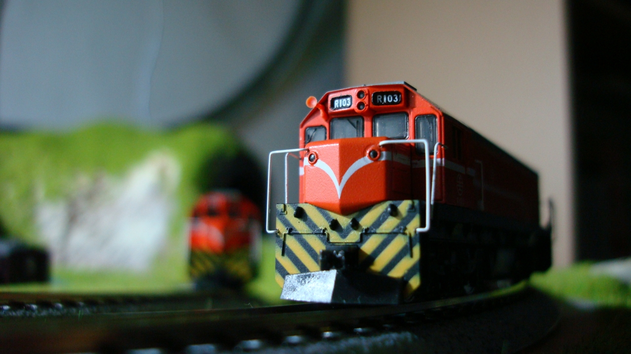 TRA R100 N-SIZE MODEL OF Touch-Rail Models CO., Ltd.